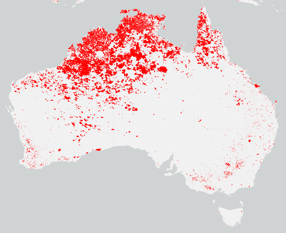 Burned areas shown in red detected by NASA's MODIS imaging sensors onboard Terra & Aqua satellites from June 2017 to May 2018. We acknowledge the use of data and imagery from LANCE FIRMS operated by NASA's Earth Science Data and Information System (ESDIS) with funding provided by NASA Headquarters.